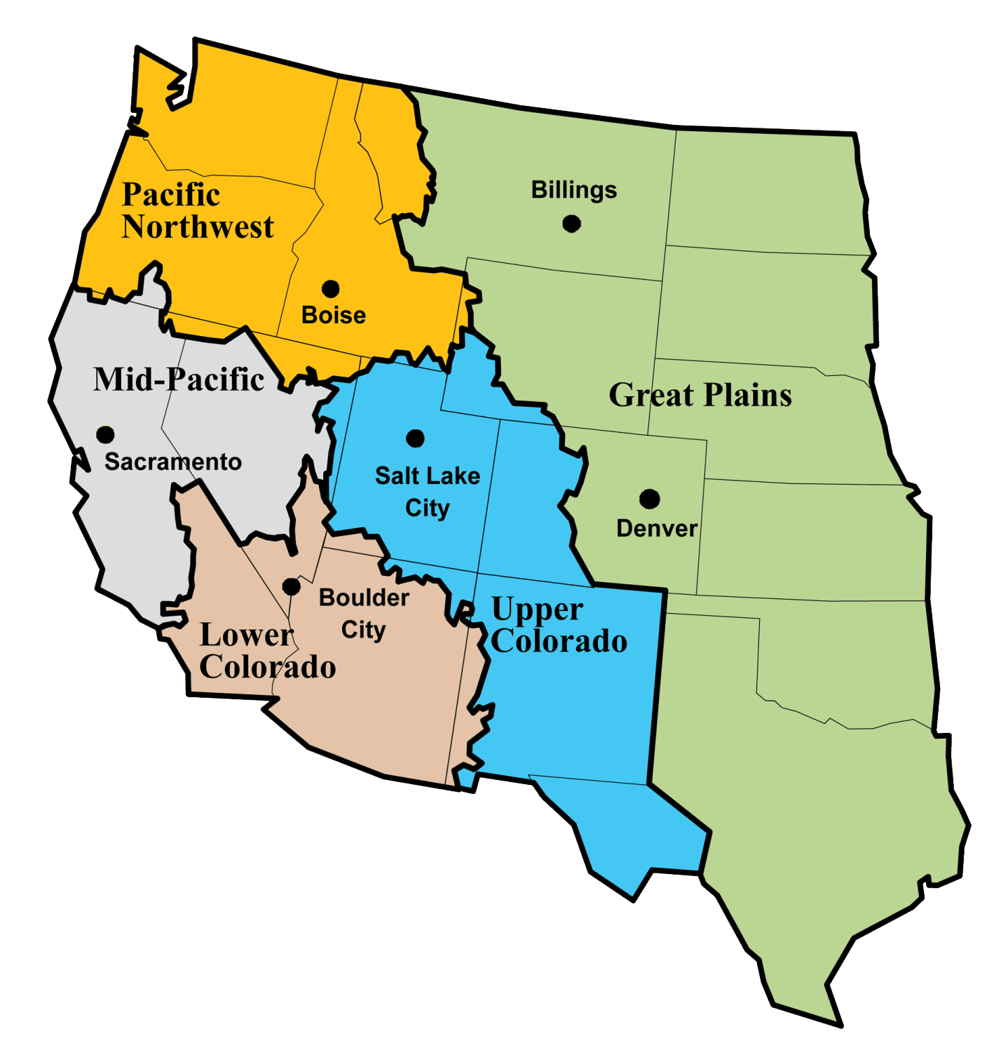 Jurisdictions of regional offices in the United States Bureau of Reclamation.